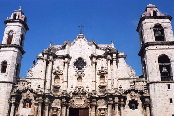 Catedral de San Cristóbal, Havana.